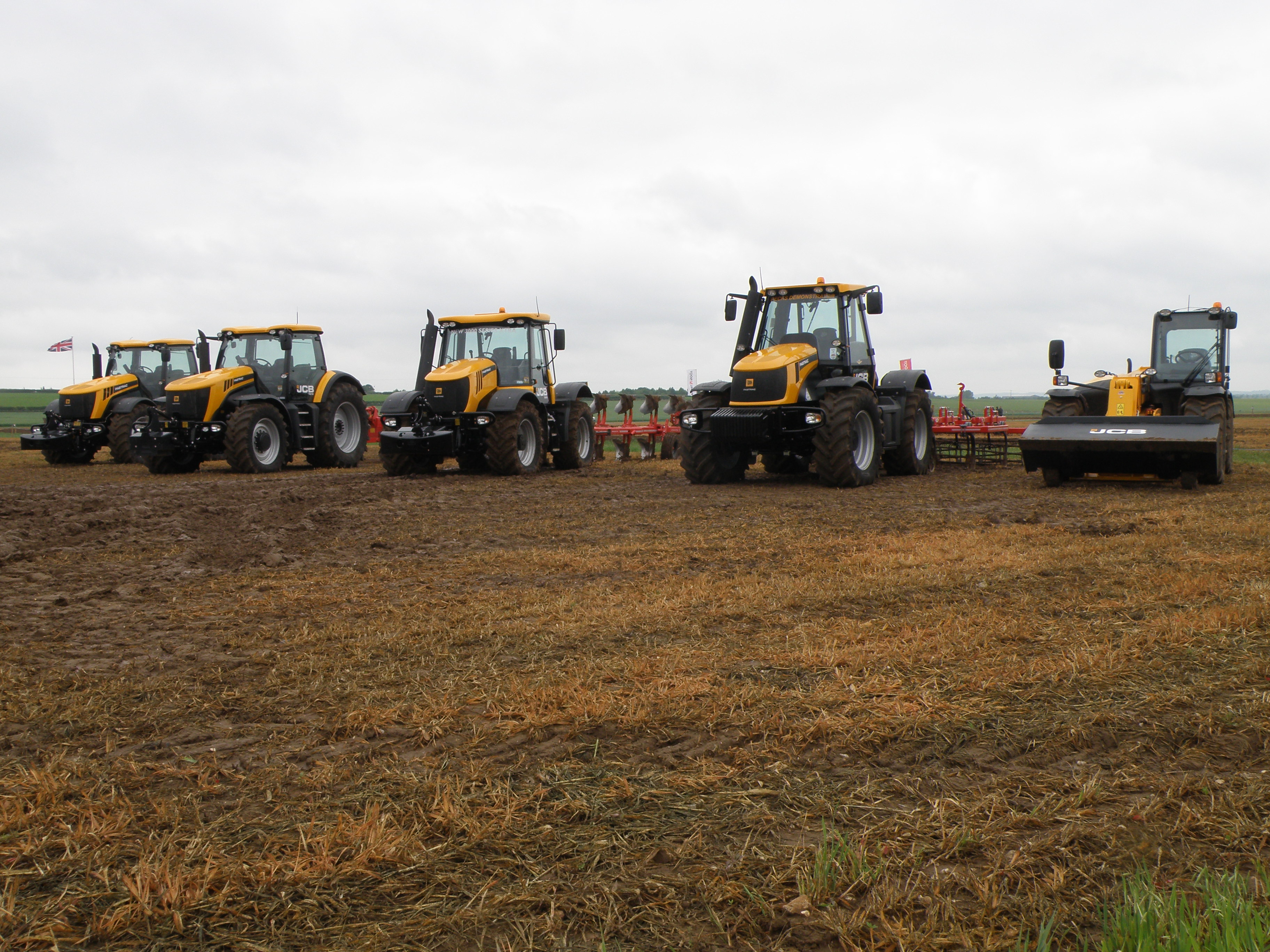 Another line up of JCB products (JCB Fastrac models and a JCB telehandler), Cereals 2010, near to Chrishall Grange, England, Great Britain. One year on from Vine Farm, Wendy exactly the same weather conditions occurred for the Cereals event. A dry first morning followed by a torrential downpour in the afternoon which meant the following day was a quagmire as well as being very dull. The JCB products were photographed to show something colourful on a tremendously drab day.